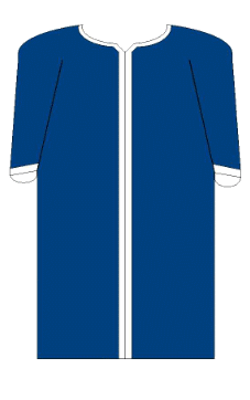 Ordre de Saint-Jérome